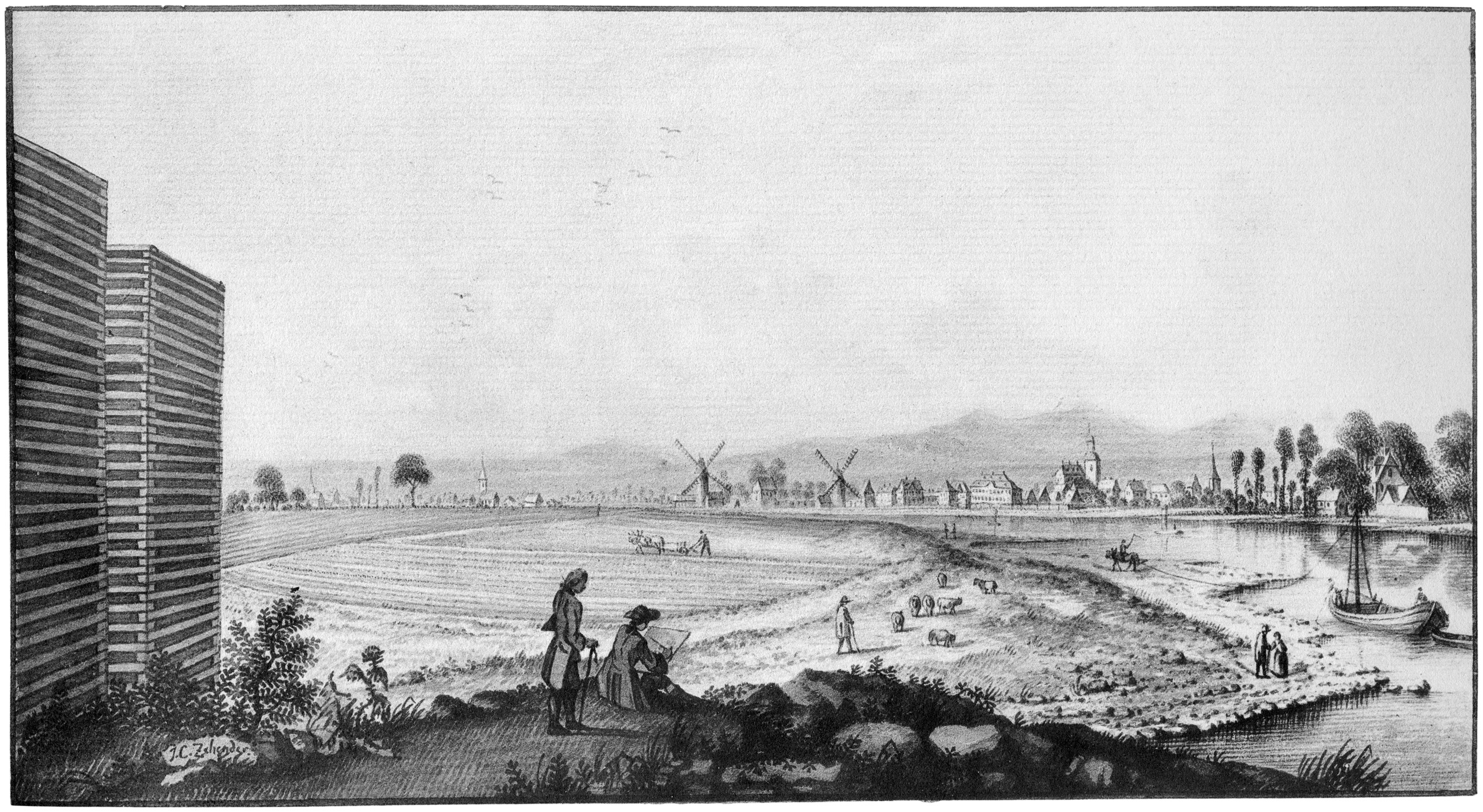 Frankfurt on the Main: Prospect of Offenbach